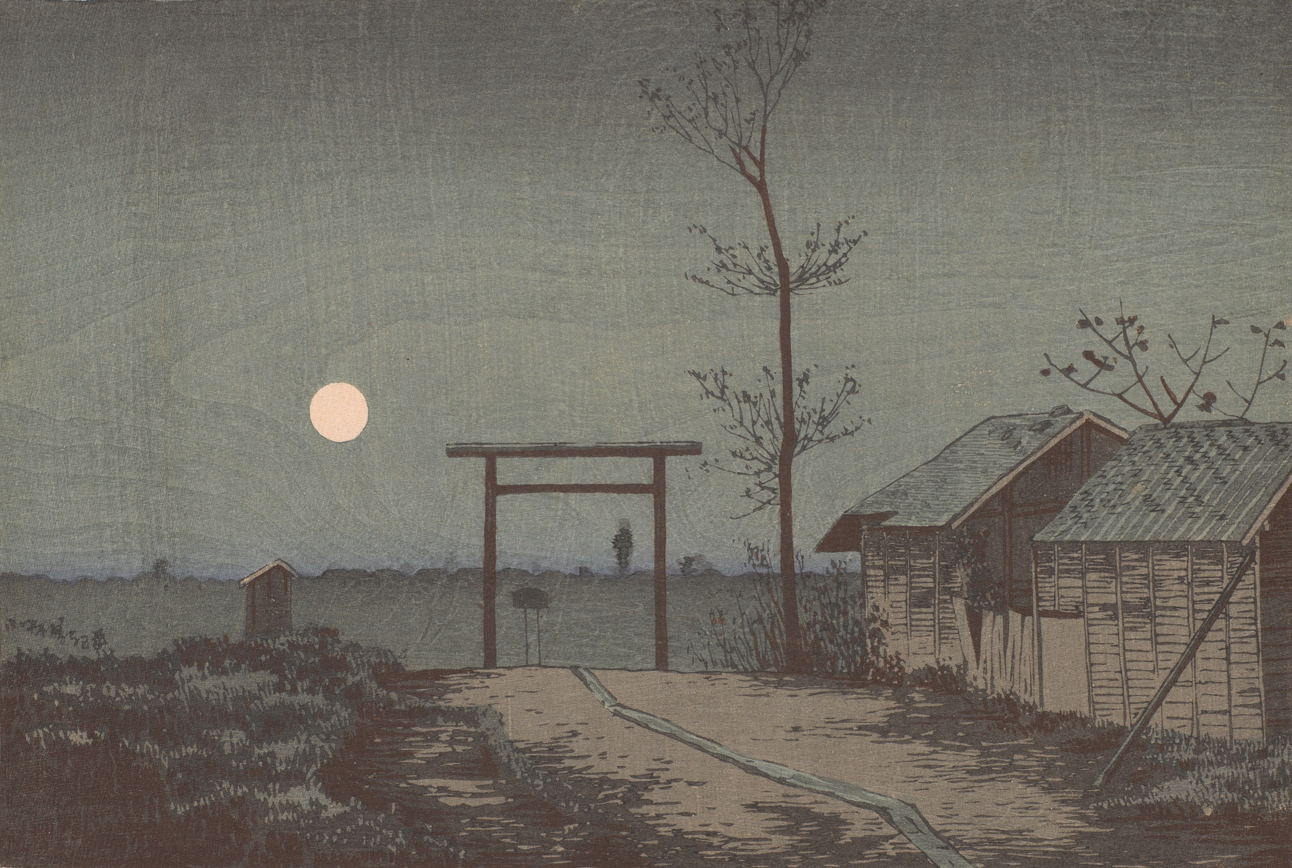 Full-colour print by Japanese artist Kobayashi Kiyochika